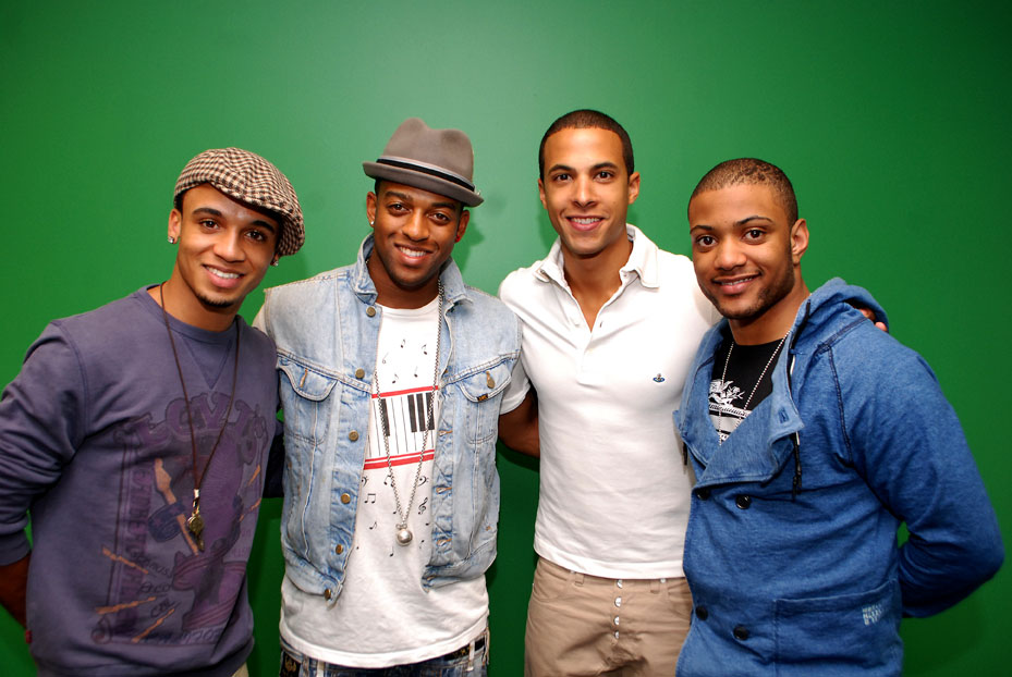 British boyband JLS Performs at KISS FM 103.5 Chicago Radio on April 20, 2010, photo by Adam Bieawski